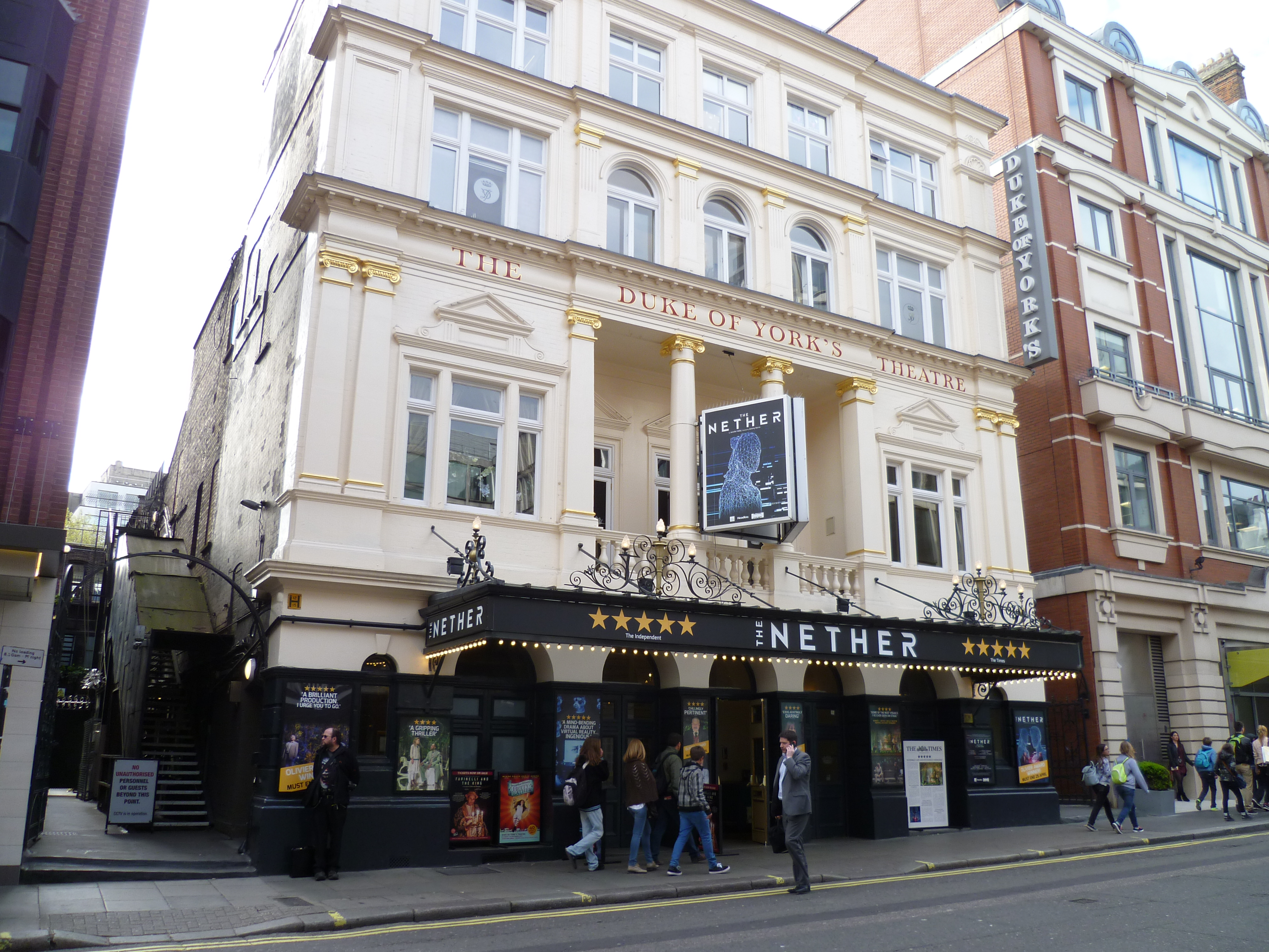 London